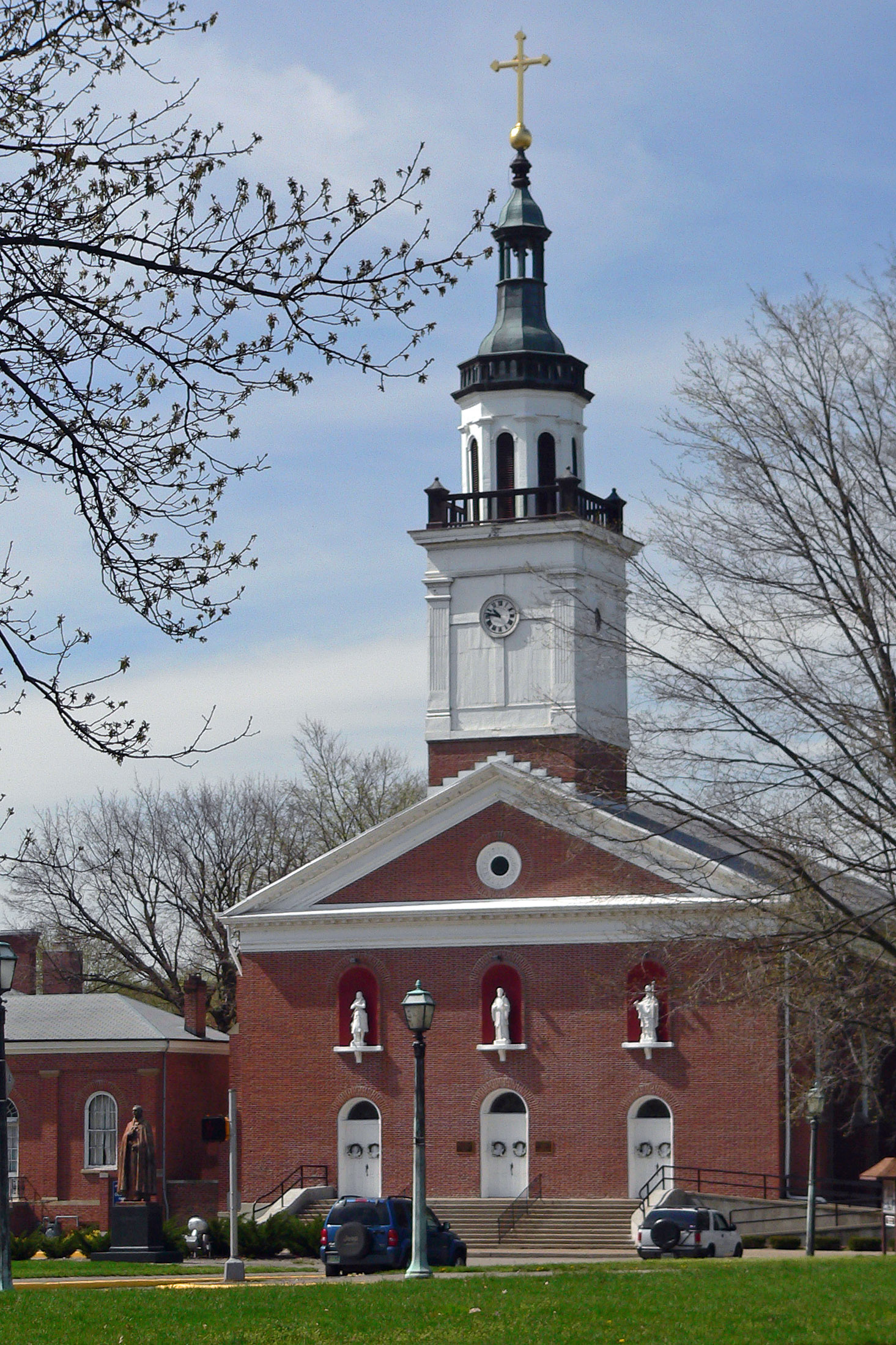 Old Cathedral Complex